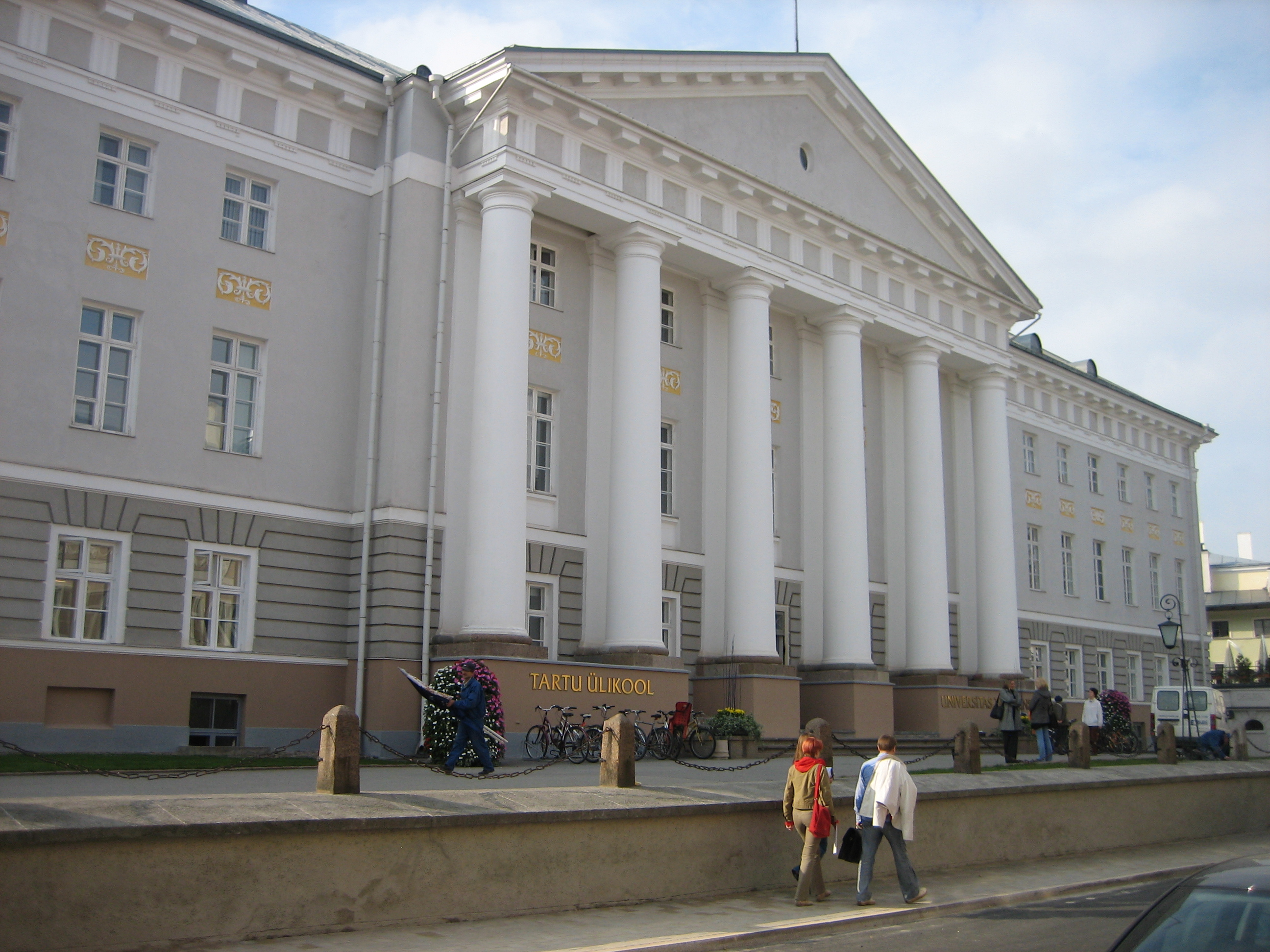 Tartu university?